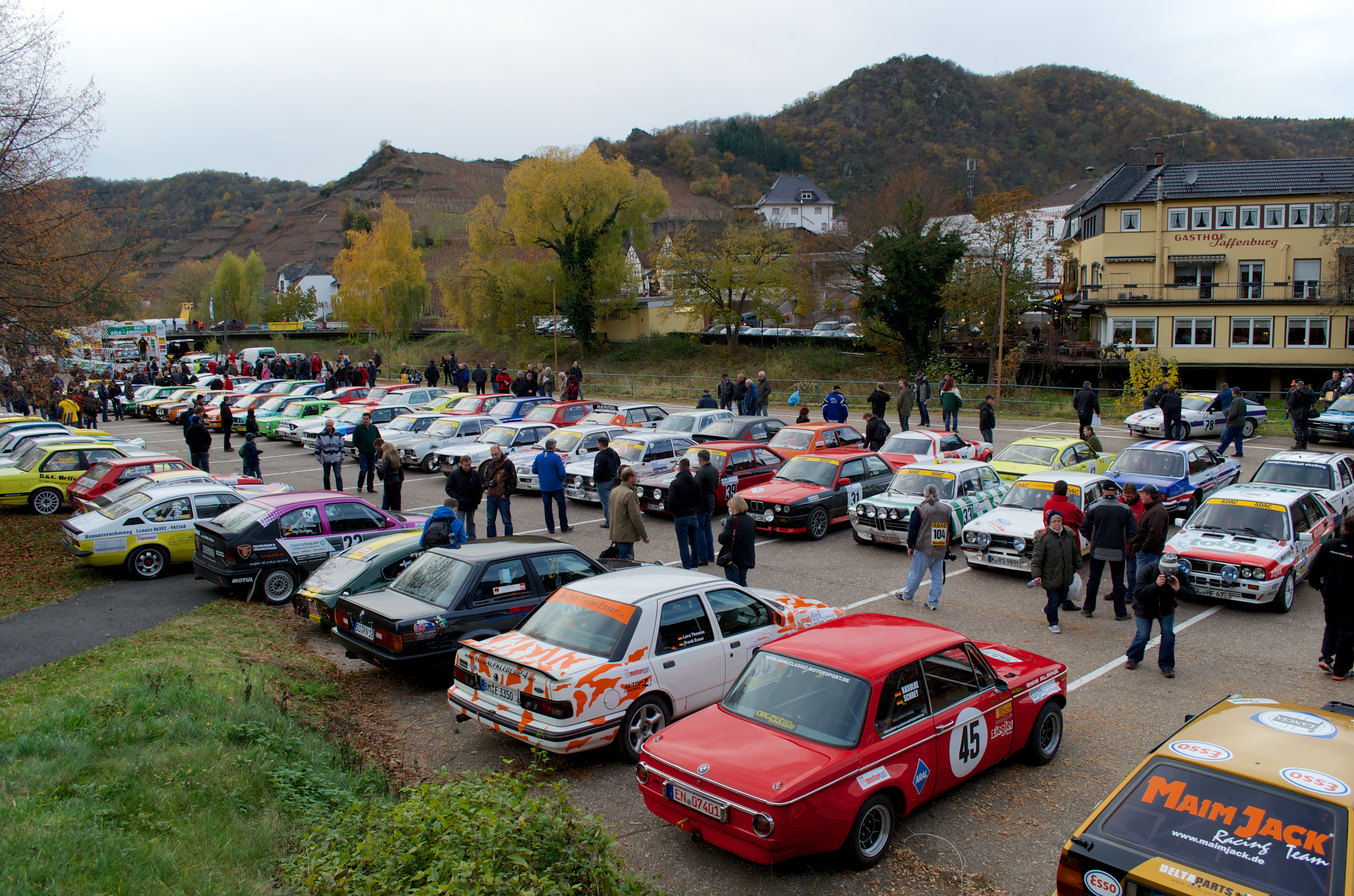 Parc fermé of the 2012 Rallye Köln-Ahrweiler in the village of Mayschoß located on the shore of the river Ahr